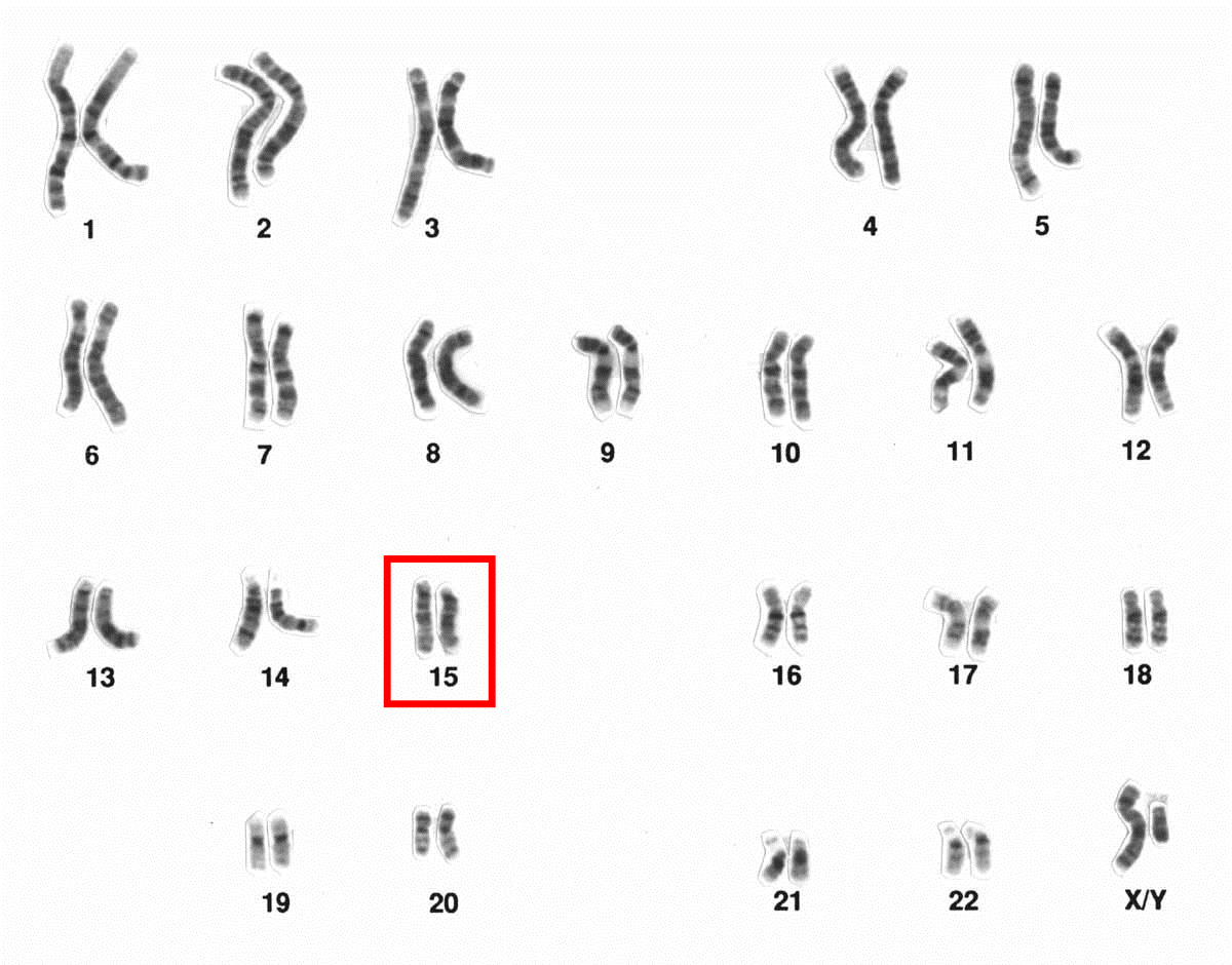 Human male Karyotype after G-banding. Chromosome 15 highlighted